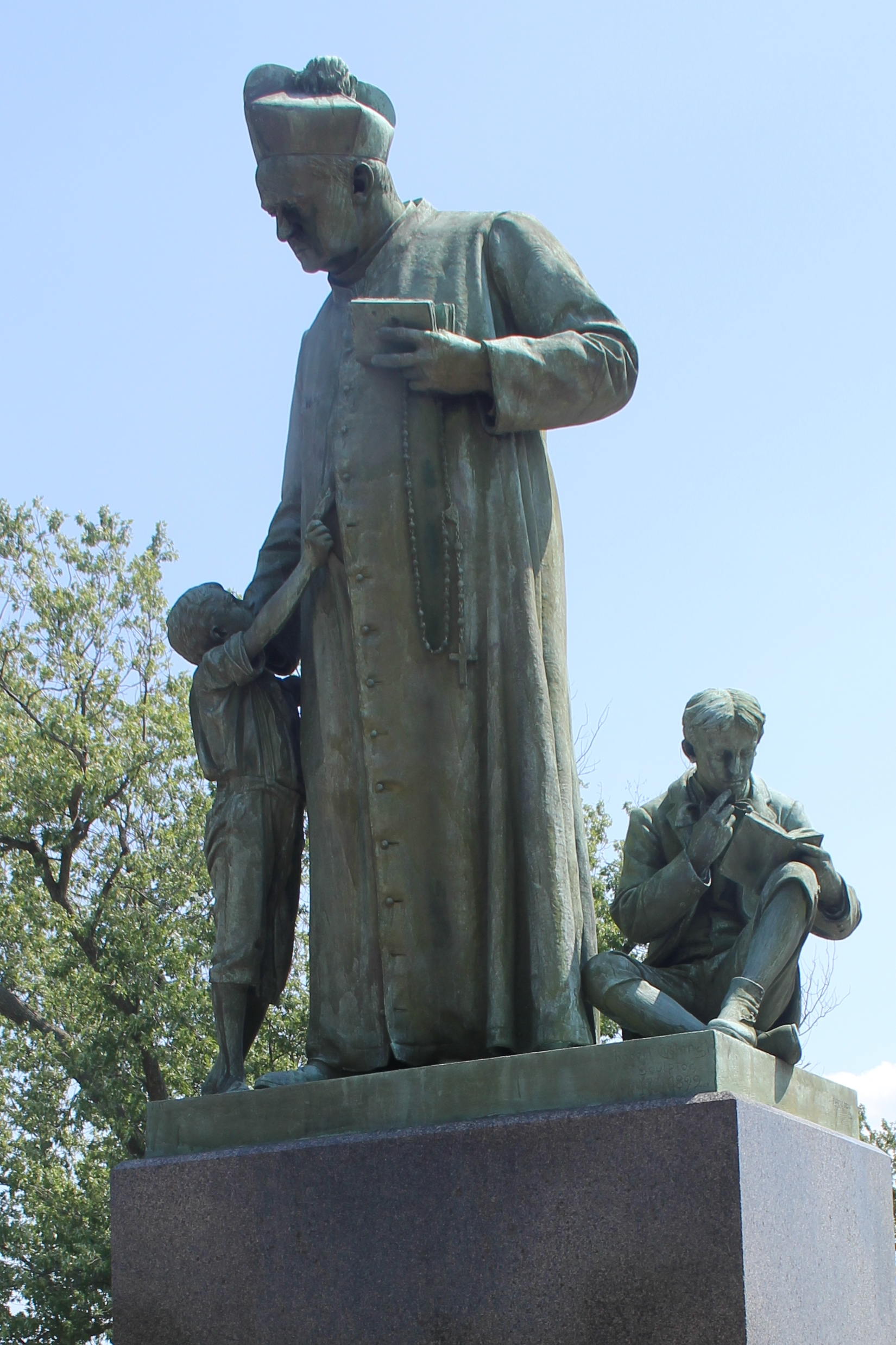 Detail of the statue of Rev. John C. Drumgoole (1816-1888), a Roman Catholic priest who founded Mount Loretto, an historic orphanage and children's home in Staten Island, NY. It depicts Drumgoole caring for two young newsboys, who were the original focus of his charity work. This statue was created in 1894 and originally stood at another institution founded by Drumgoole in Manhattan. It was moved to Mount Loretto in 1920, and as of August 2015 still stands on the grounds of that historic institution, in front of the Old Church of St. Joachim and St. Anne (north of Hylan Boulevard between Sharrott and Page avenues). According to a March 29, 1886 article in the New York Times, the sculptor was Robert Cushing and the statue depicts Father Drumgoole being interrupted by the needy newsboy on the left of the photo; the boy to the right, reading a book, represents a boy educated and saved from a life on the streets by Father Drumgoole's work.